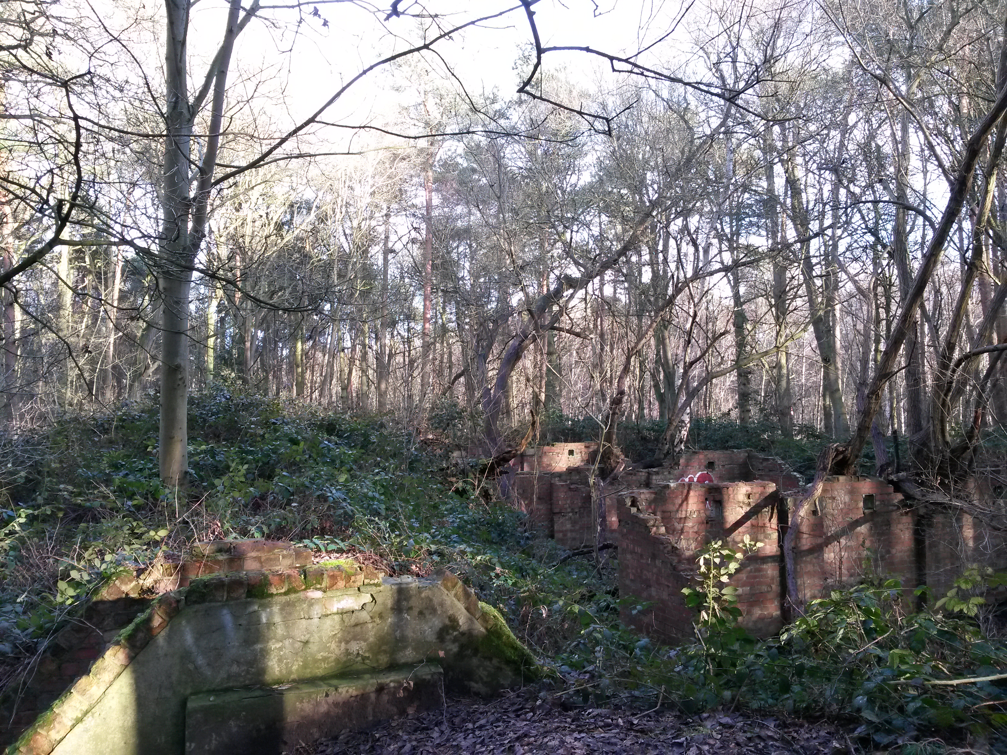 These buildings in woodland at Skellingthorpe Moor are the remains of the old RAF base.